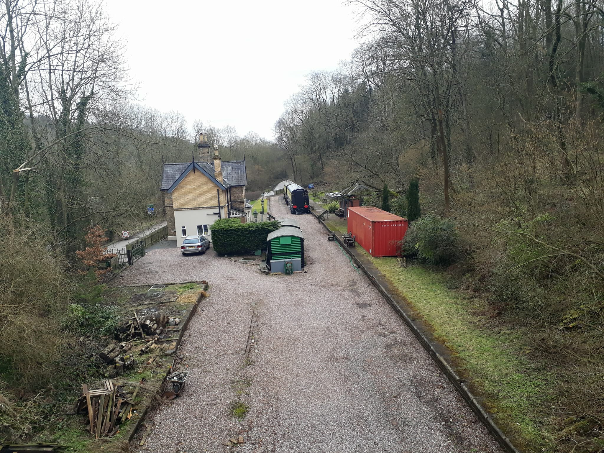 My own.